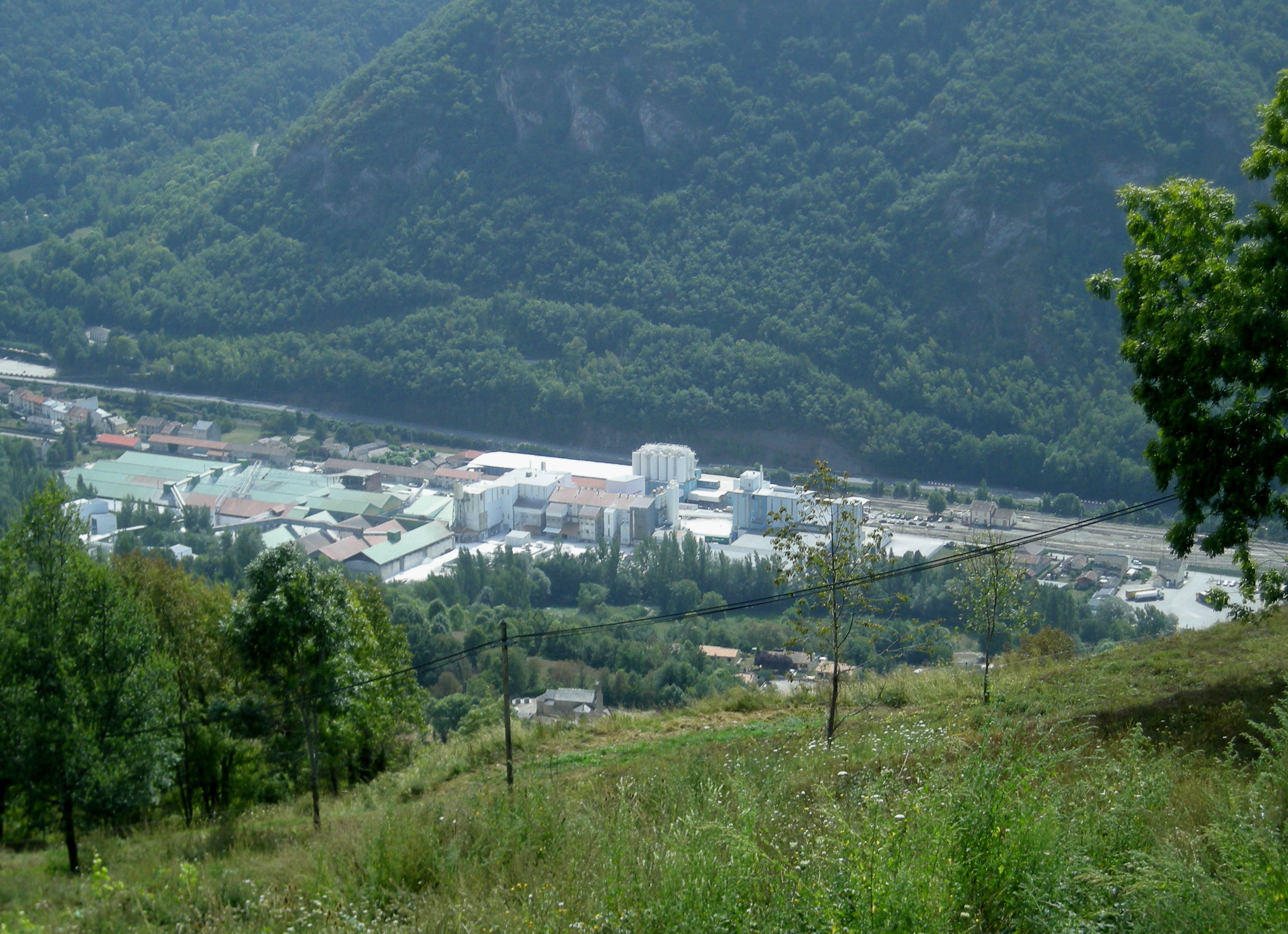 Talc factory in Luzenac (Ariège)